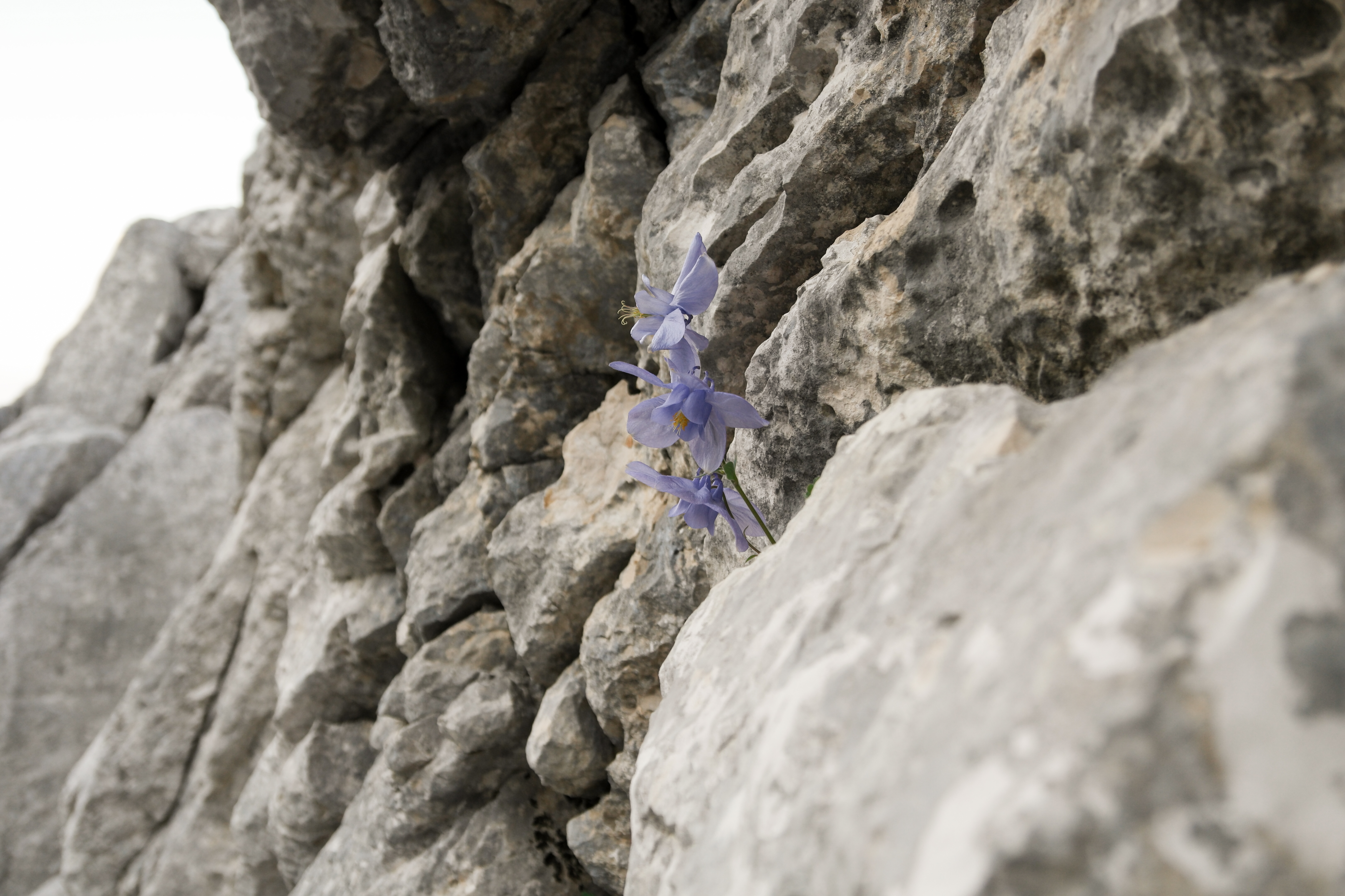 Aquilegia dinarica leg P.Cikovac Jastrebica ridge Mt Orjen 1710 m a.s.l.